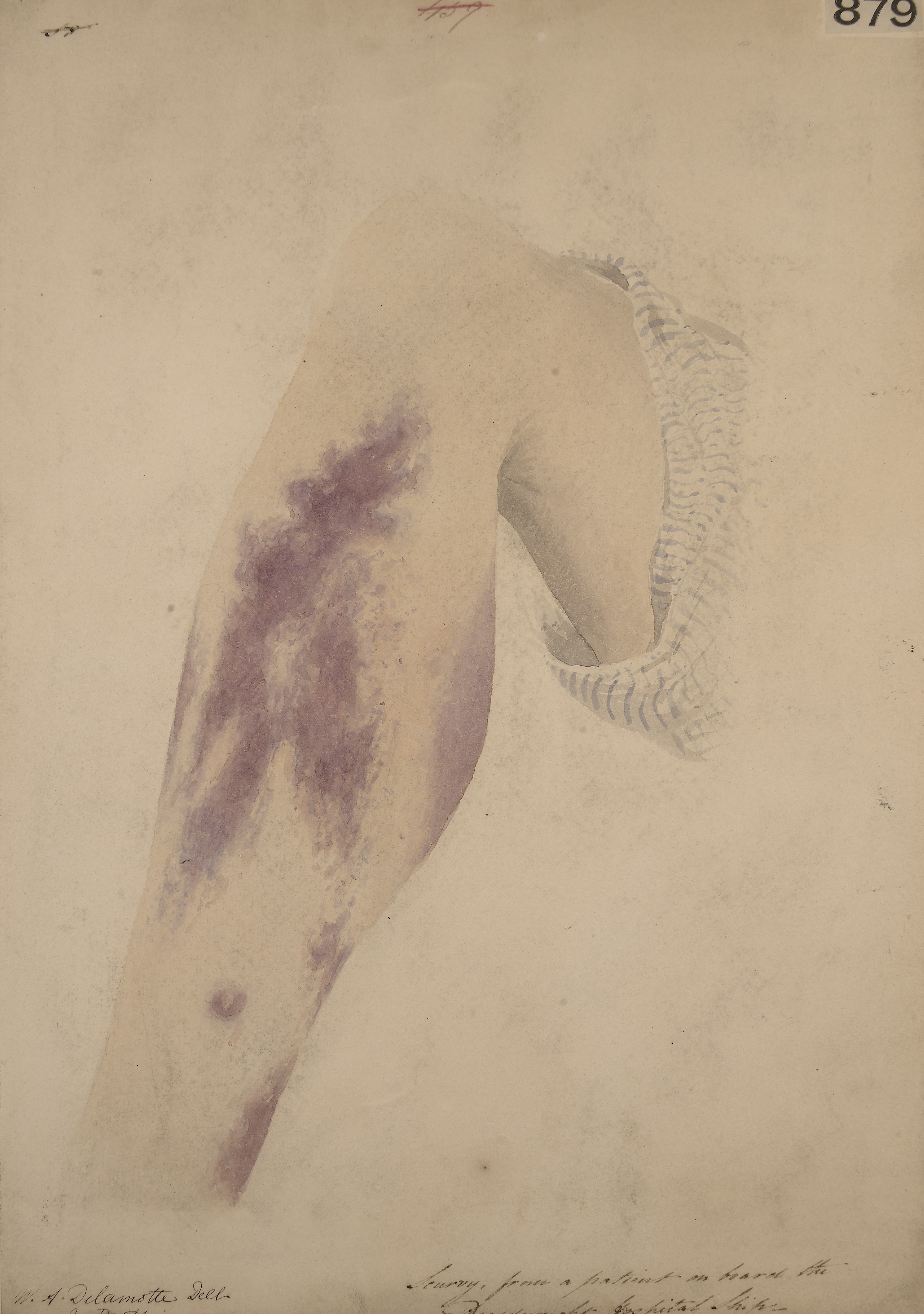 Watercolour drawing of the leg from a patient suffering from scurvy. From a patient on board the 'Dreadnought' Hospital Ship. Medical Photographic Library Keywords: Delamotte, William Alfred